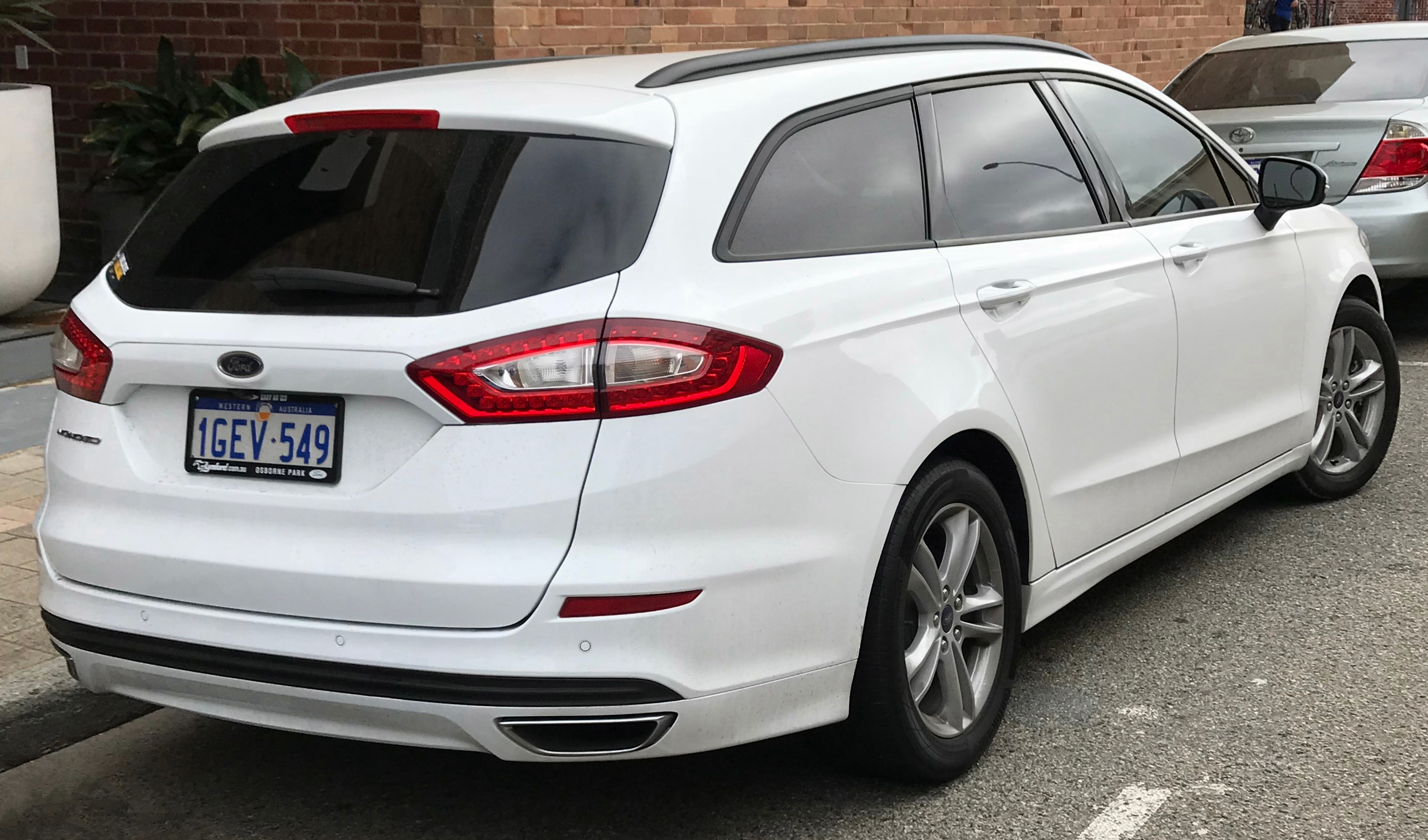 2017 Ford Mondeo (MD) Ambiente station wagon. Photographed in Fremantle, Western Australia, Australia.